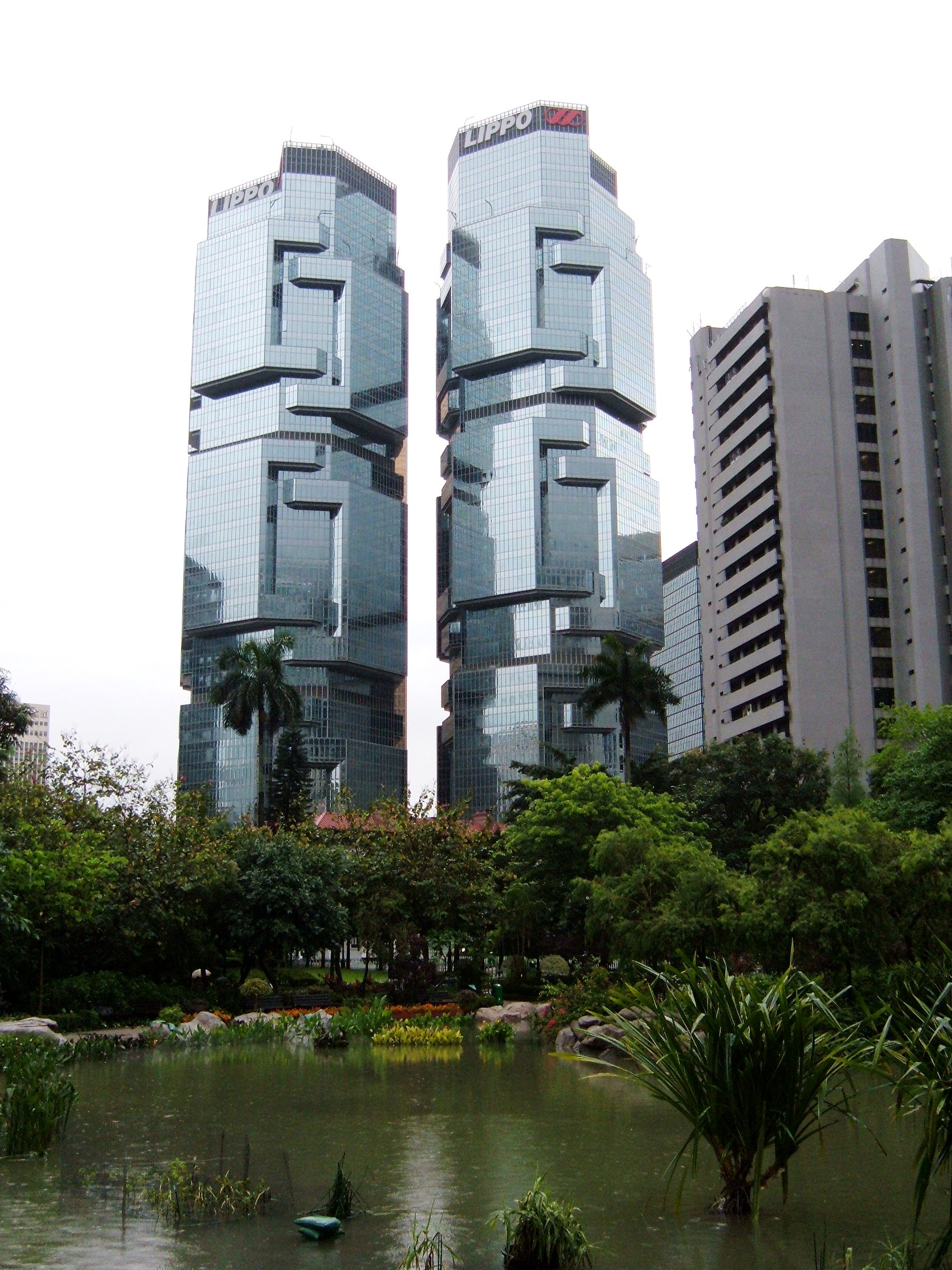 The Lippo Centre as seen from Hong Kong Park in Central, Hong Kong.